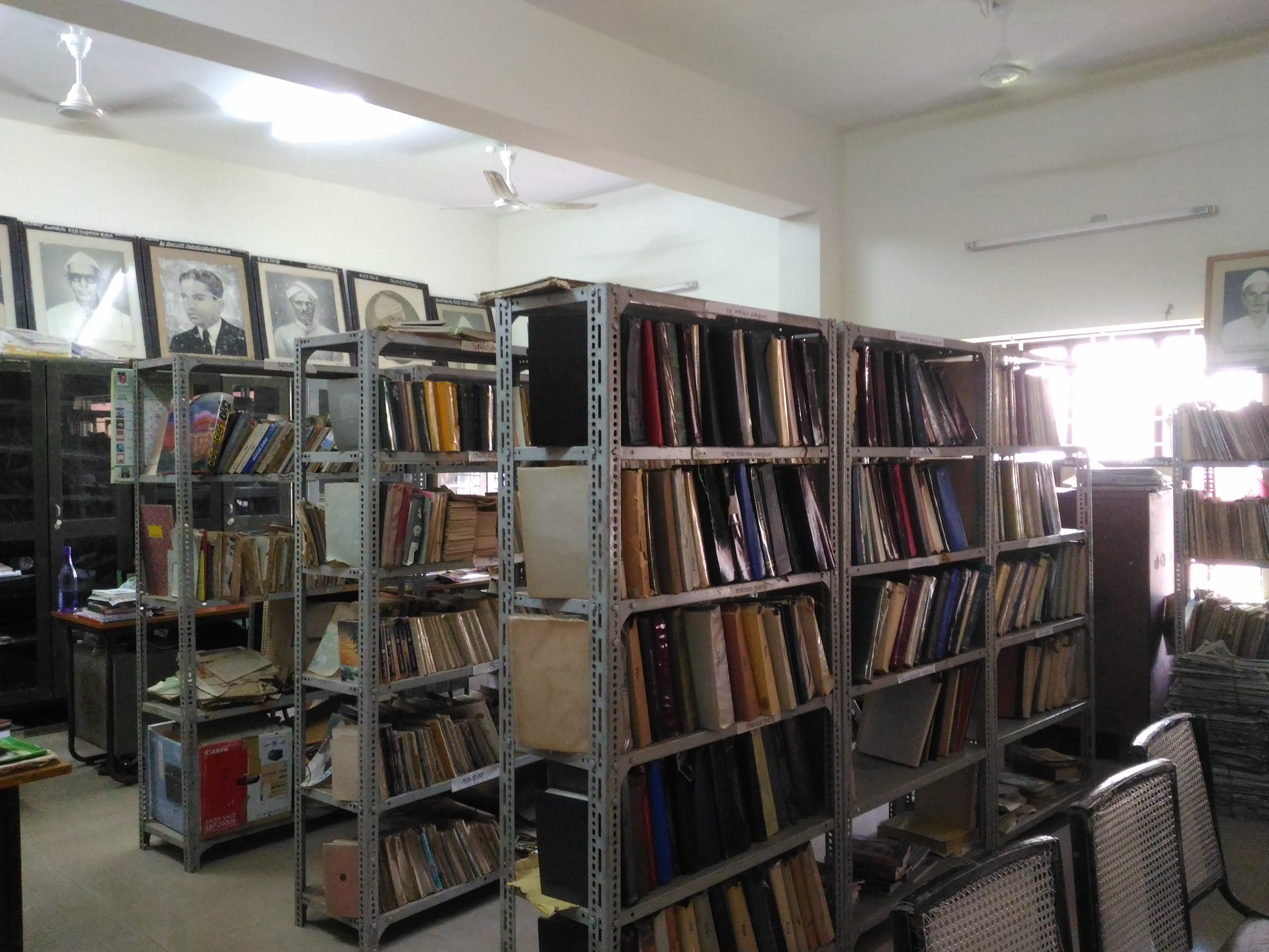 ಮಂಗಳೂರು ವಿ ವಿ ಕನ್ನಡ ವಿಭಾಗ